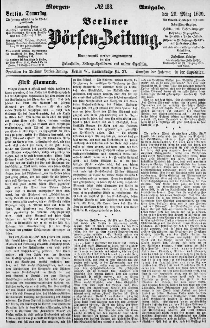 Newspaper front page of Berliner Börsen-Zeitung (1855–1944) no. 133 as of 20 March 1890 – Otto von Bismarck has resigned